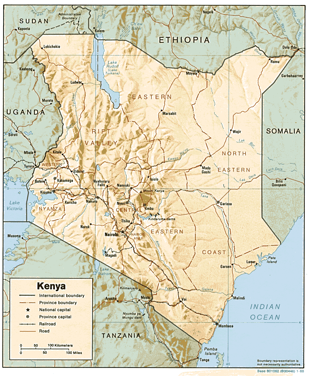 Shaded relief map of Kenya